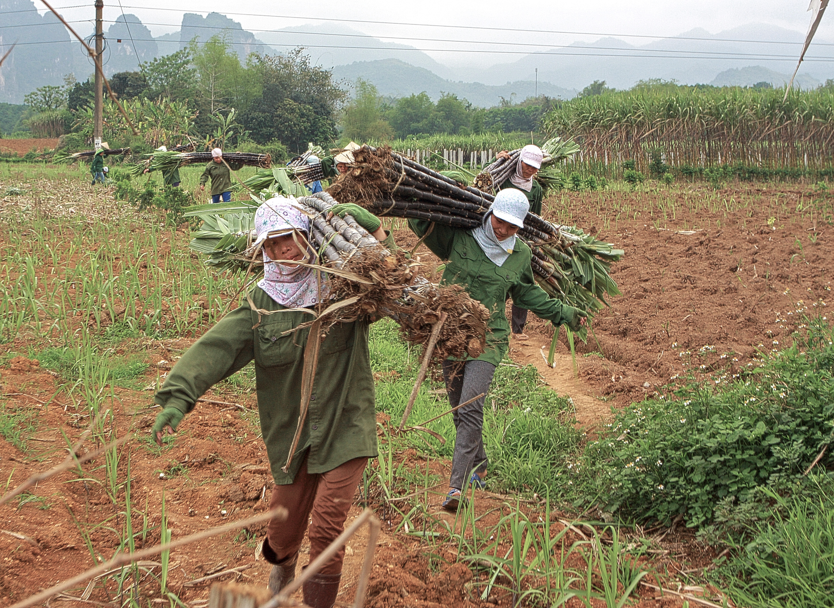 Sugar canes harvested by women in Hòa Bình province, Vietnam.